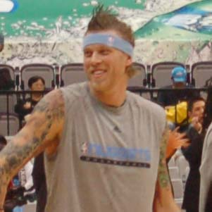 Chris Andersen exchanges words with Rex Chapman